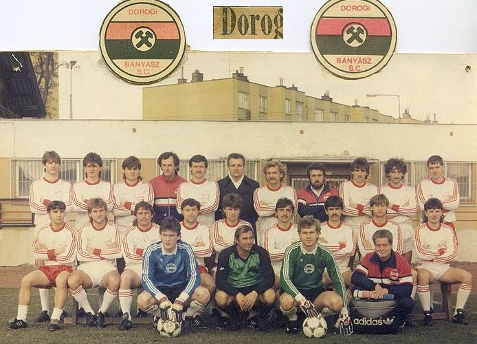 This group has been won as silver medal winner and went up to second division